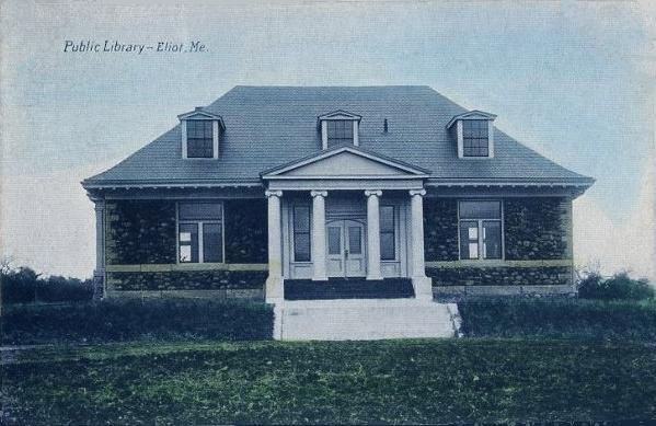 William Fogg Library, Eliot, ME; from a 1919 postcard. Designed by Boston architect C. Howard Walker, it was dedicated on May 21, 1907.